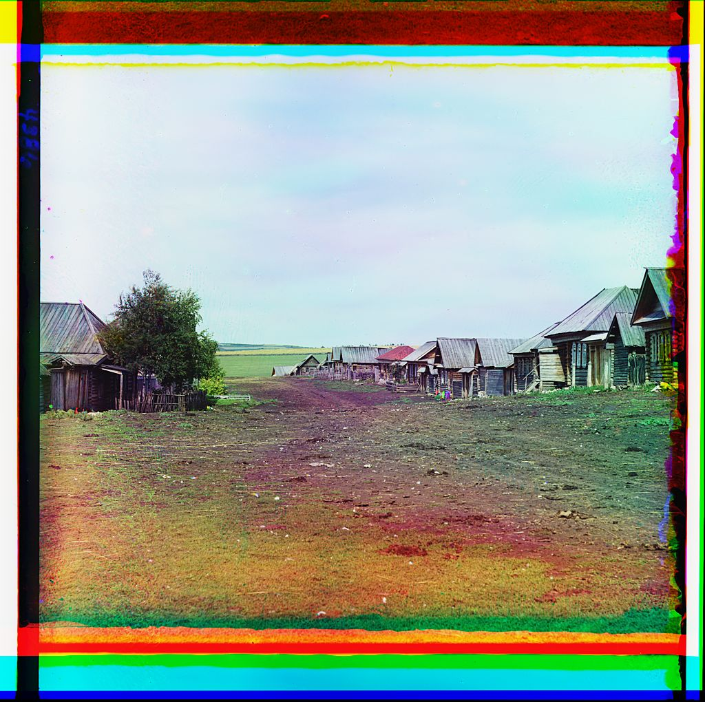 Street in a Bashkir village. [Ekhia]